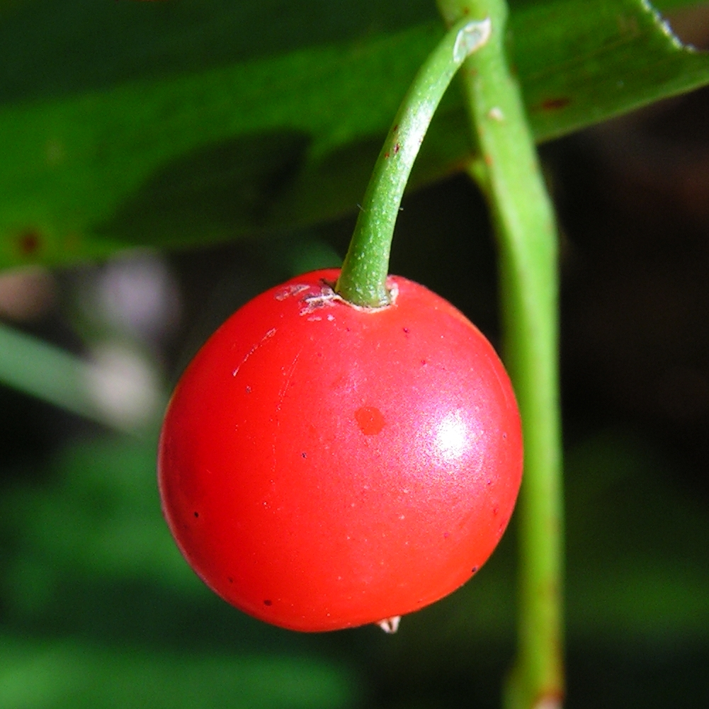 The berrу of wild Convallaria majalis. Moscow region, Russia.